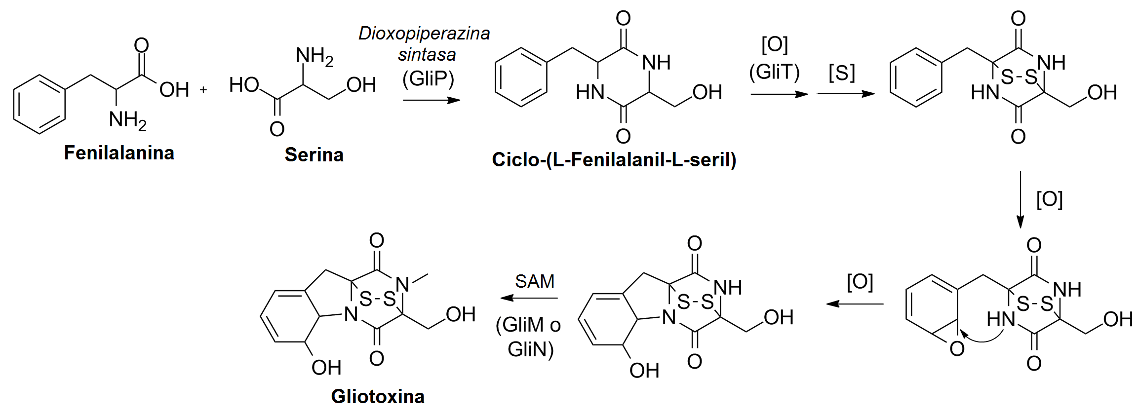 Gliotoxin biosynthesis scheme